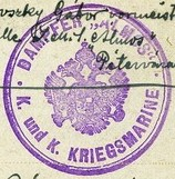 Seal of the K. u. K. Armierte Dampfer Álmos military administration